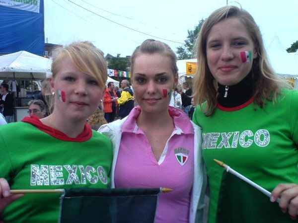 Mexico's European descended population numbers over 16 million and along with Mestizos (those of mixed European/Amerindian ancestry, around 70% of Mexico's pop.) is one Mexico's largest racial groups. These Mexican girls are at a fair in Jalisco, Mexico near Zapopan.